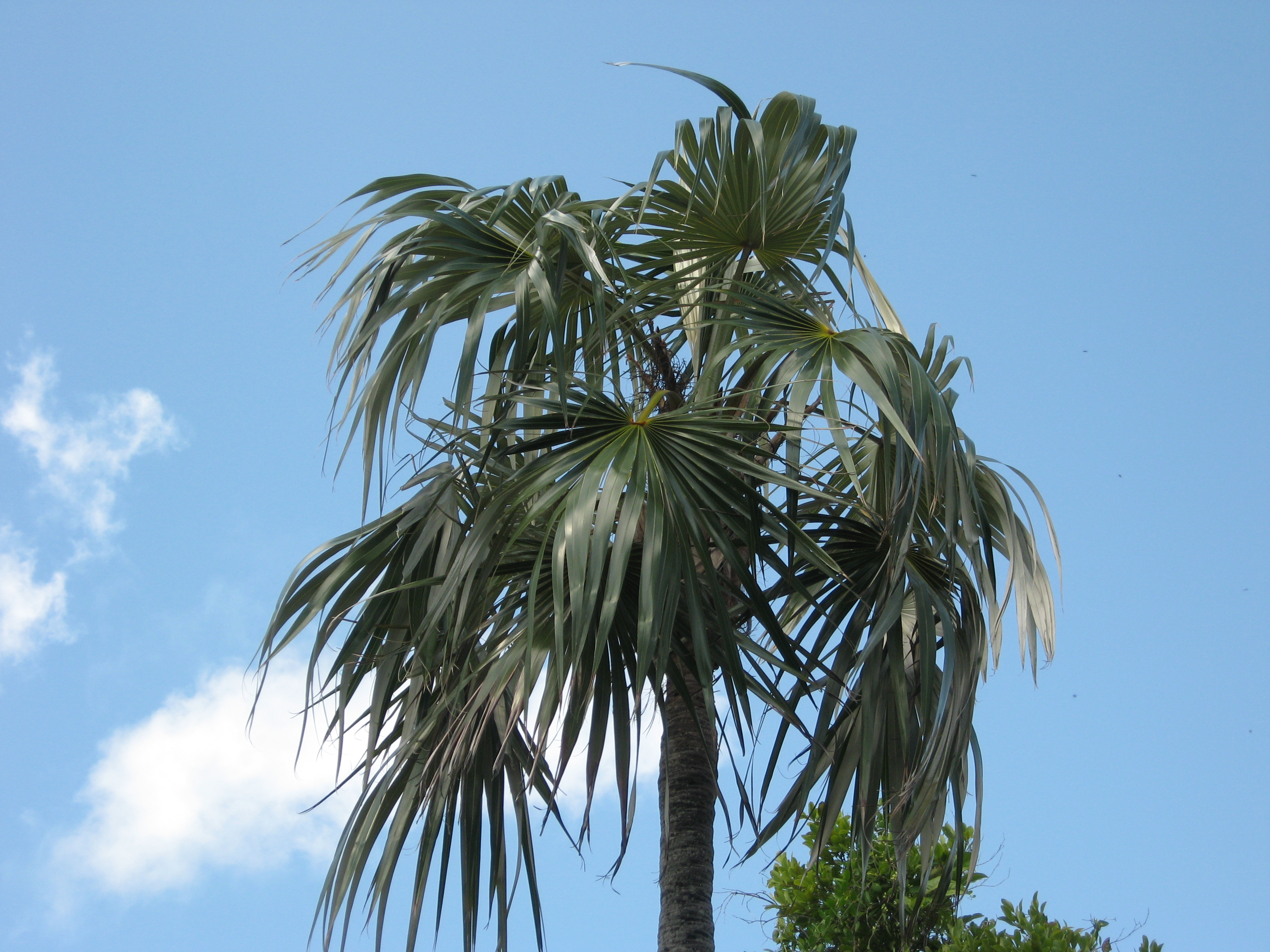 Coccothrinax argentata, Bahia Honda Key, Monroe County, Florida.